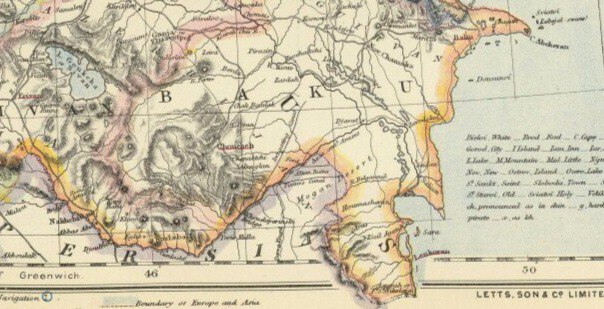 Azerbaijan on the Lett's Popular Atlas (Russia in Caucasus)